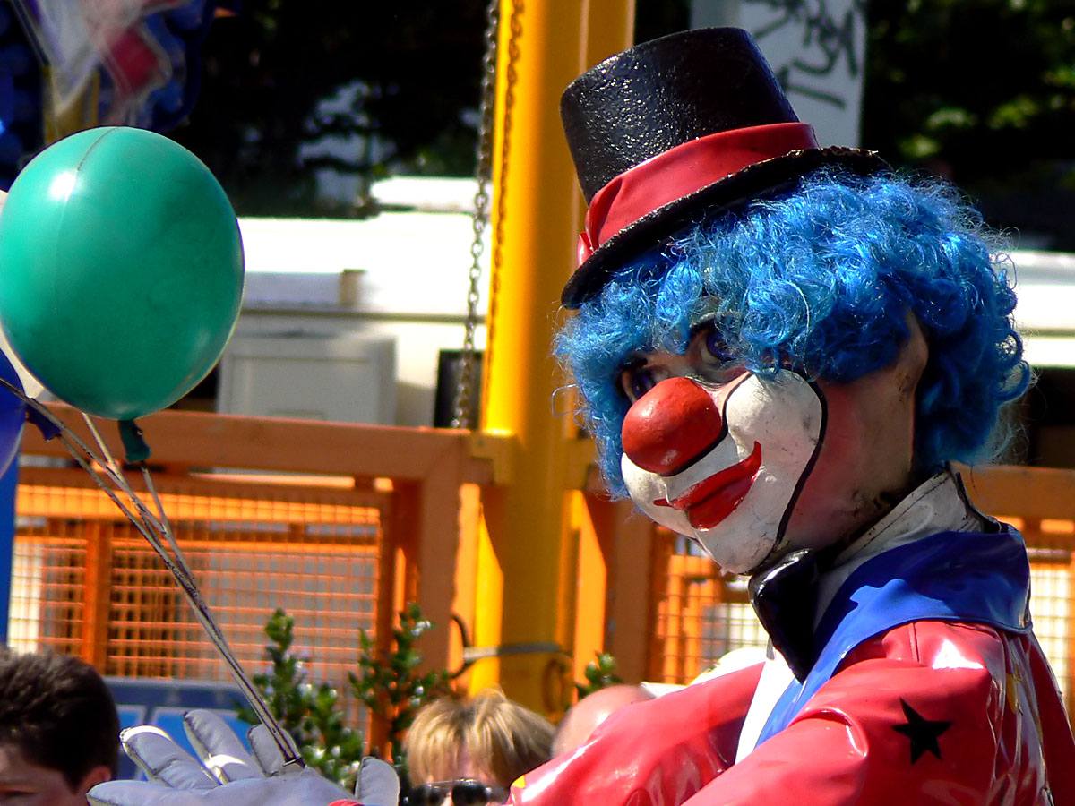 Rheinkirmes 2006, Düsseldorf, Germany A clown with a balloon